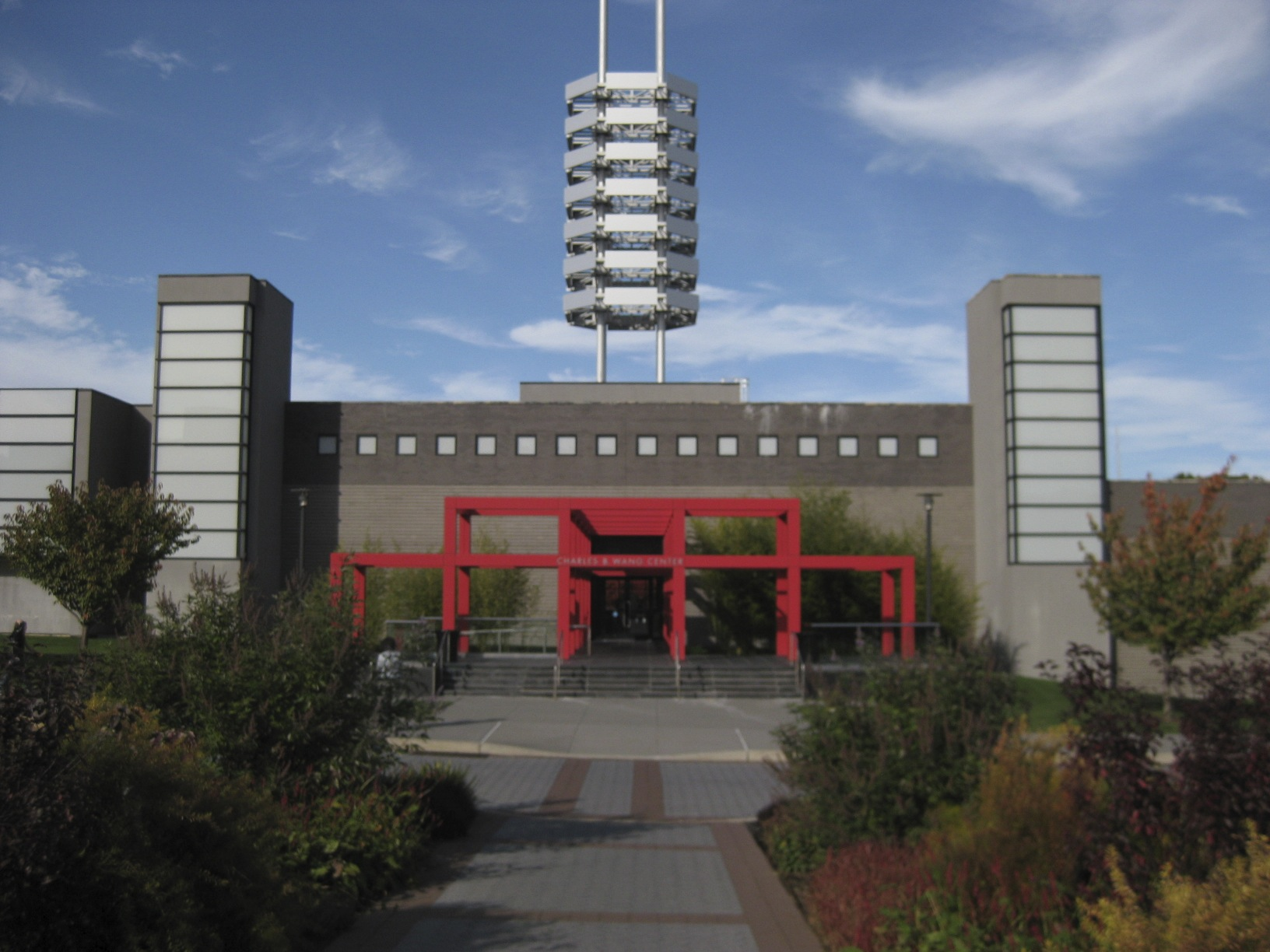 Charles B Wang Center